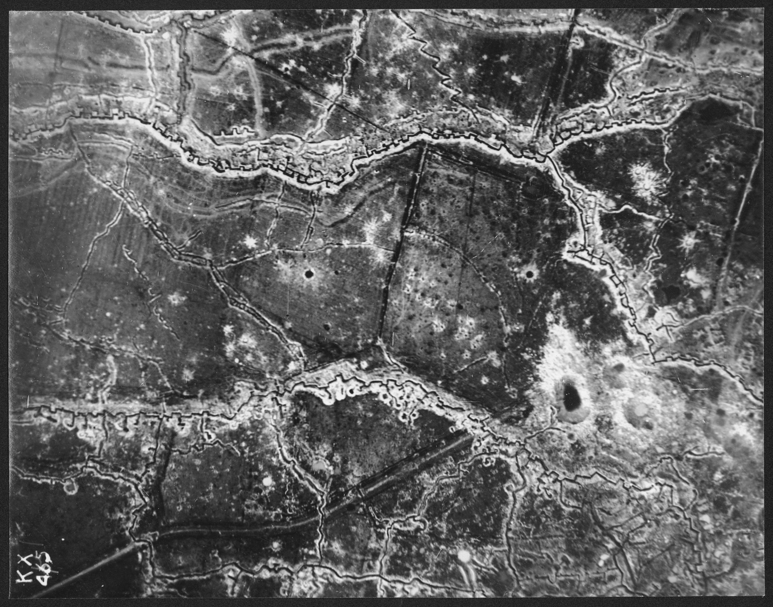 Aerial photograph, St Eloi, near Ypres, Belgium, 19 March 1916. This aerial photograph shows the area around St Eloi, near the Ypres salient. It is interesting that Field Marshal (Earl) Haig (1861-1928) kept copies of aerial photographs of this area taken directly before and after the huge detonation of British mines on 27 March 1916, which preceded an Allied advance. Haig described the preparation of these mines in his dispatch of 19 May 1916, 'Below ground there is continual mining and counter-mining, which, by the ever-present threat of sudden explosion and the uncertainty as to when and where it will take place, causes perhaps a more constant strain than any other form of warfare.' [Original reads: 'Photograph No KX.465 / Date taken 19/3/16 / Sheet 28 / Area O / No. 6 Squadron / Chief features shown:- 4,300 ft. ST ELOI'. On the back of the photograph is written 'SCALE 20000' and 'TAKEN BY NO 6 SQUAD.']